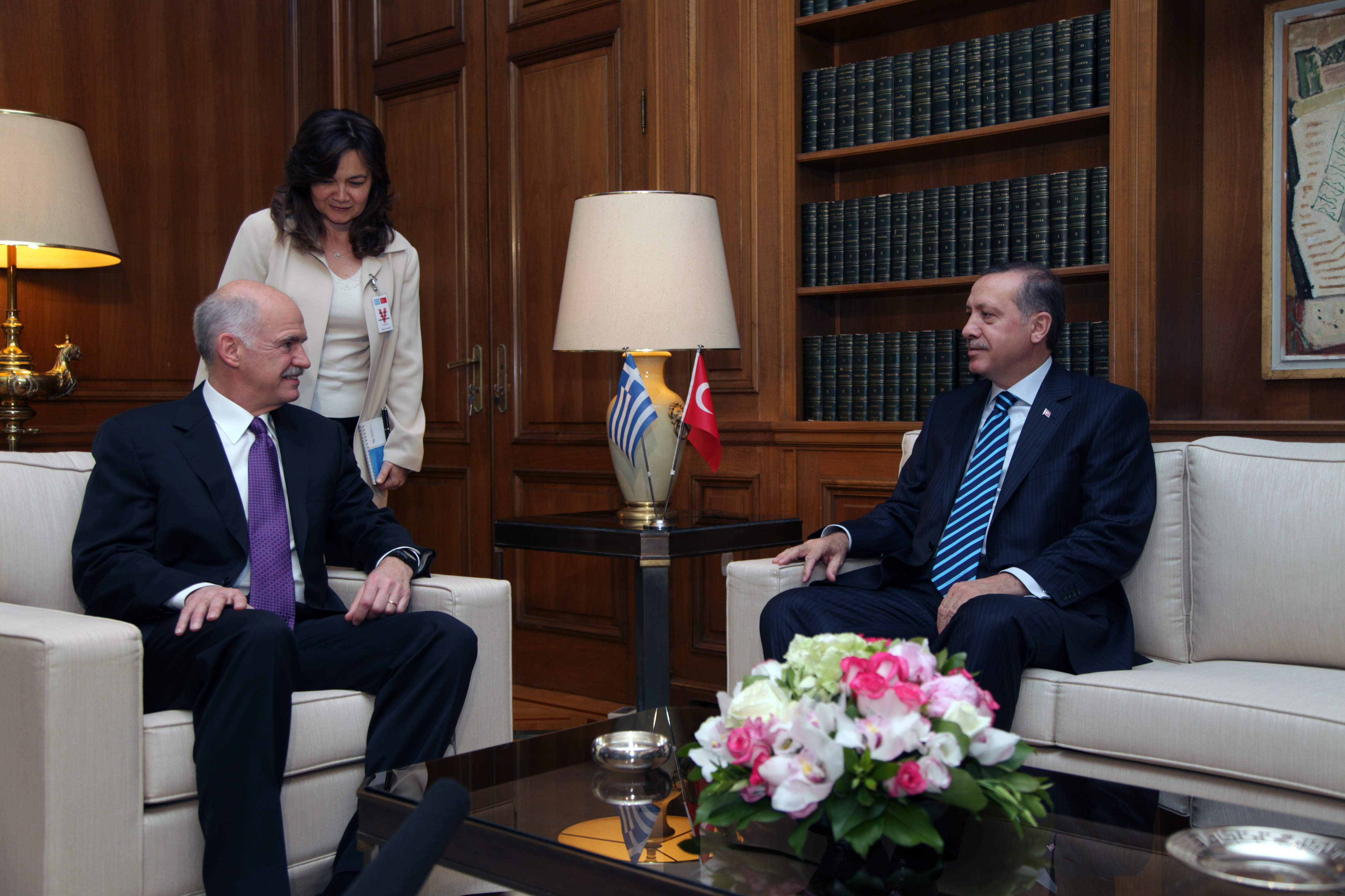 Recep Tayyip Erdoğan and George Papandreou, Greece May 2010.